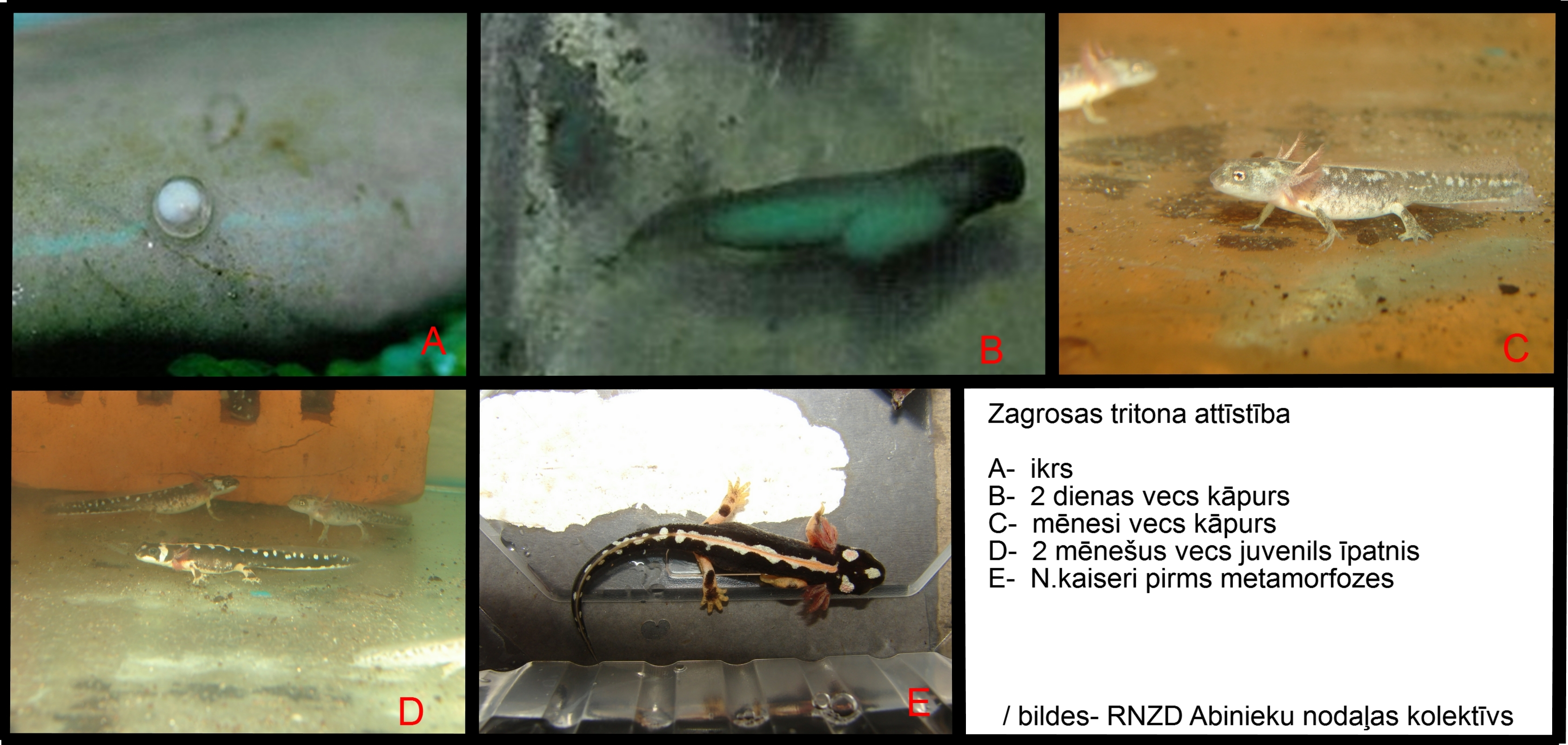 Stages of development of Neurergus kaiseri